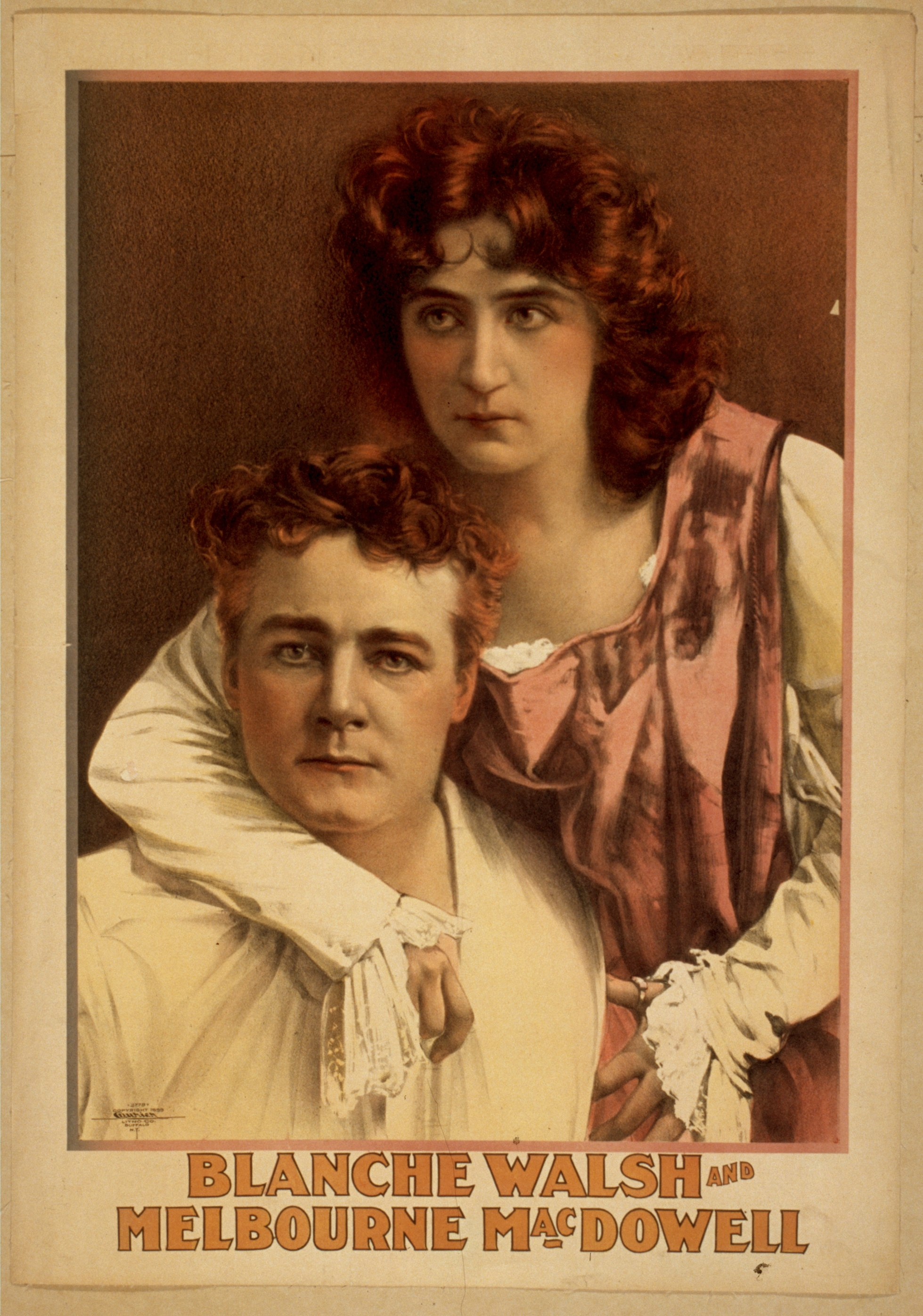 Title: Blanche Walsh and Melbourne MacDowell Abstract/medium: 1 print : color lithograph ; sheet 72 x 51 cm. (poster format)